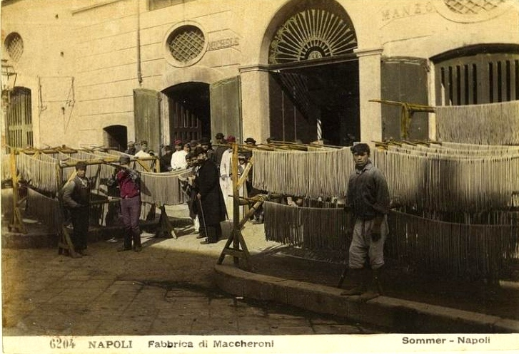 Giorgio Sommer (1834-1914), "Naples - Macaroni-makers". Hand-tinted photograph. Catalogue # 6204.